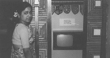 Original image at found from NASA copyright information .